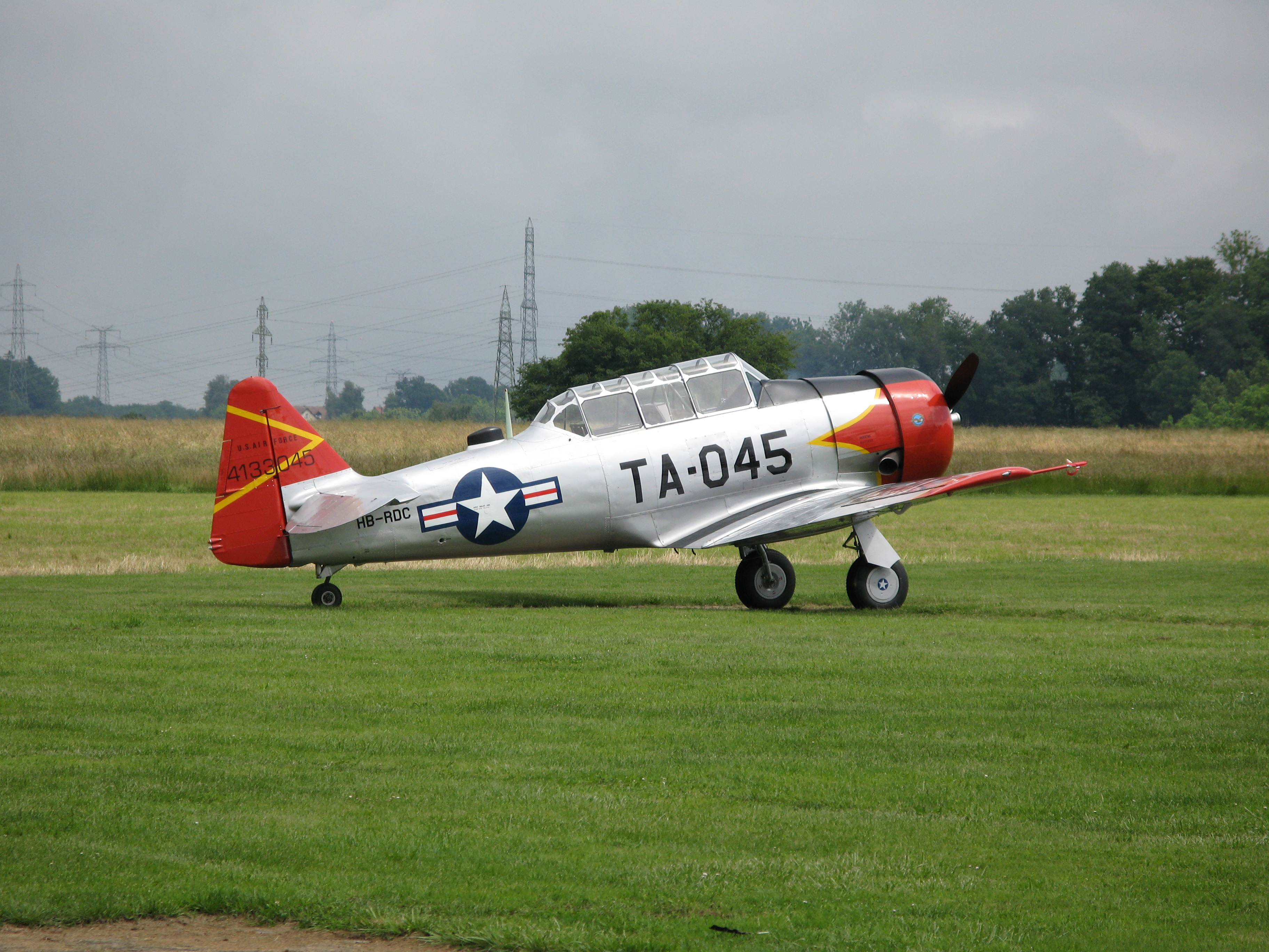 North American T-6 trainer aircraft